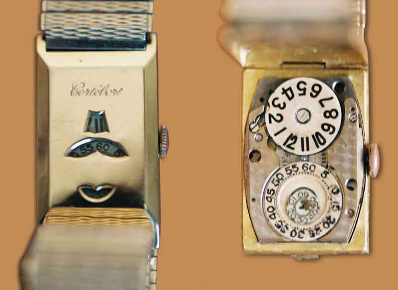 Cortébert jumphour wristwatch from 1920s in 24k gold case